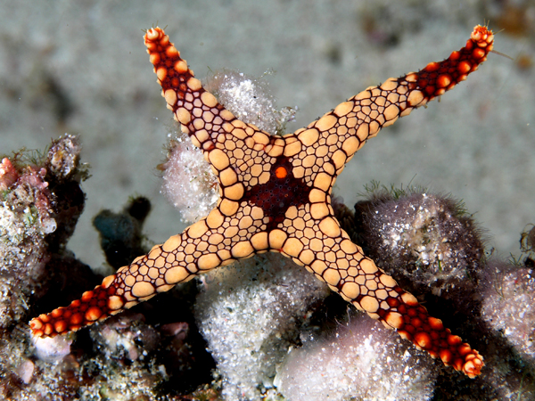 Komodo National Park starfish